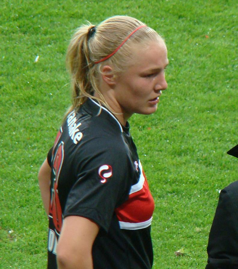 AZ player Stefanie van der Gragt